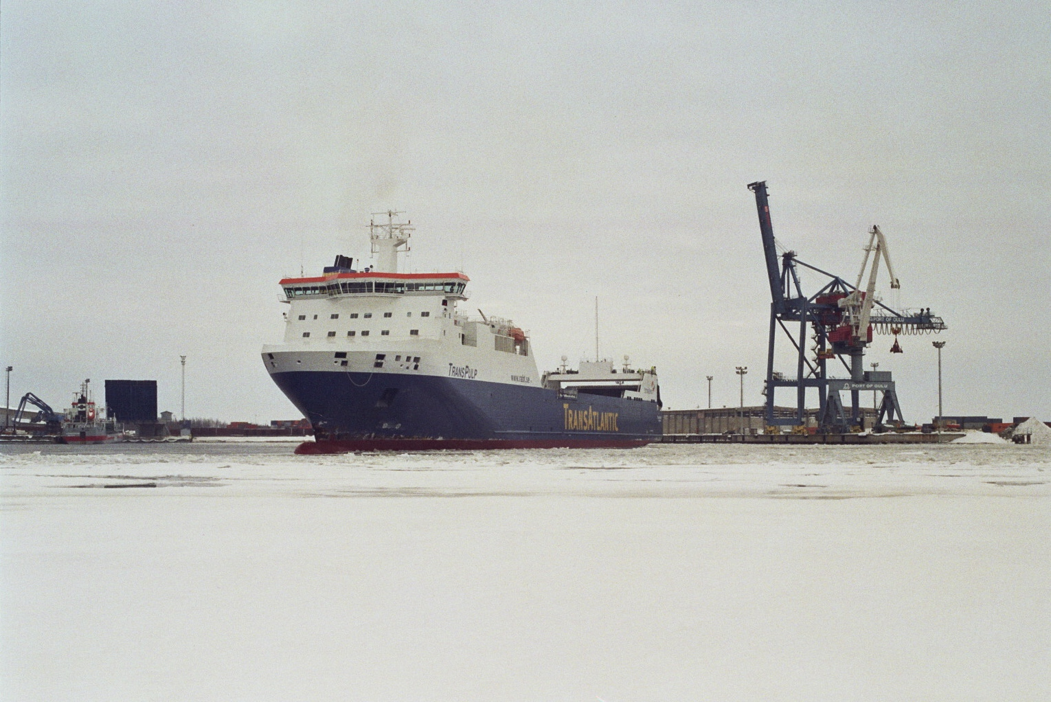 A view from the the Oritkari harbour, a part of the Port of Oulu in Finland. The ship is M/S TransPulp, a Swedish cargo ship.